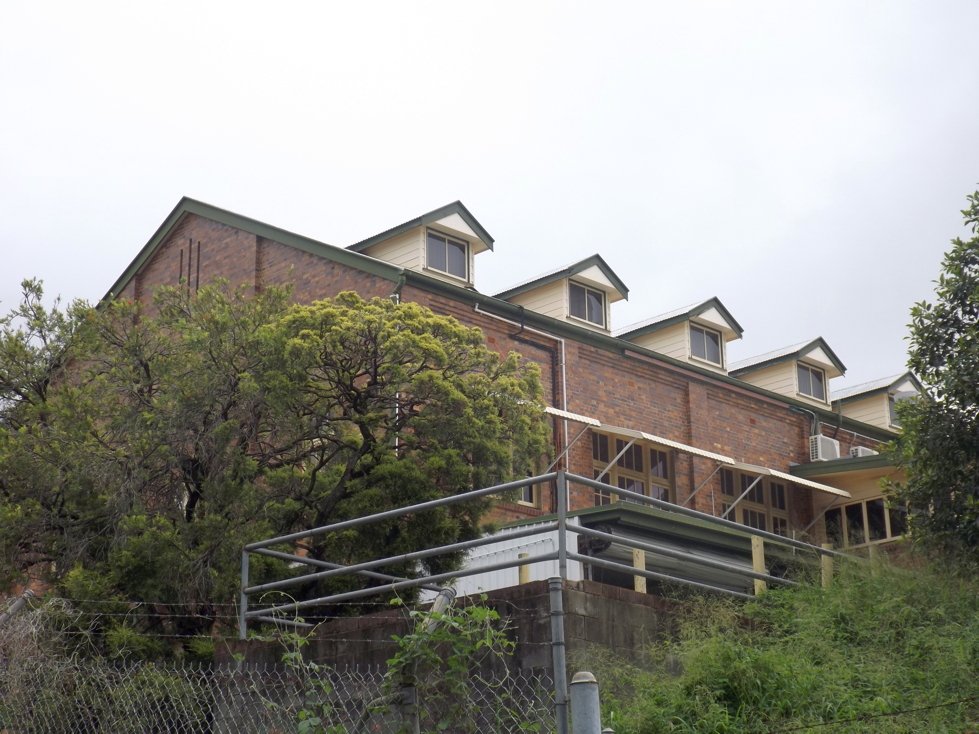 Photo of Commonwealth Acetate of Lime Factory at Morningside, Brisbane, Queensland, Australia.